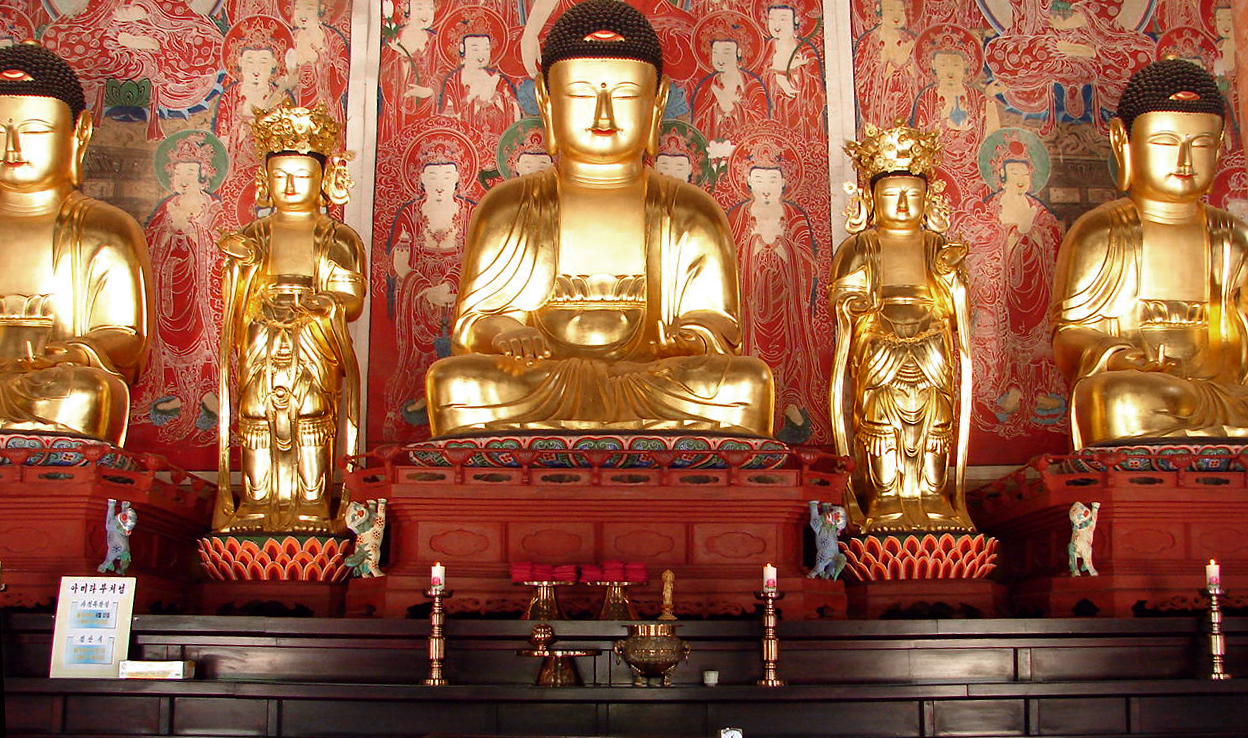 Hwaeomsa is a head temple of the Jogye Order located on the slopes of Jirisan, Gurye County, in Jeollanam-do, South Korea constructed under the Silla dynasty in 544, burned down during the Seven Year War in the 1590s, and then rebuilt.